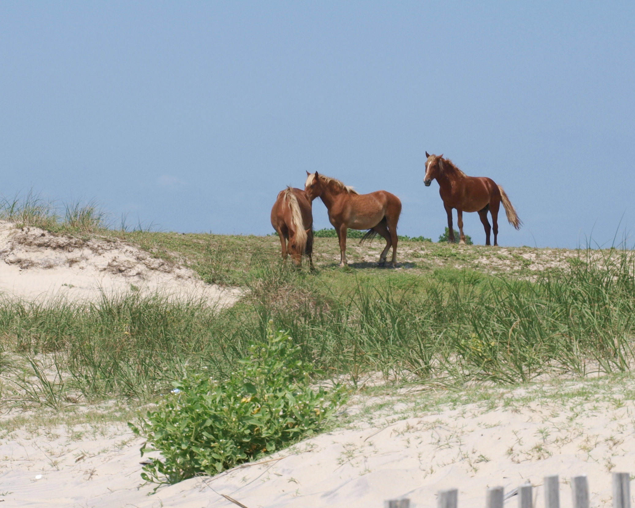 Wild Spanish Colonial Mustangs Outer Banks, NC